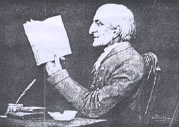 Samuel Fox (1781-1868) was a grocer, philanthropist and abolitionist Quaker from Nottingham. He led a group who founded the Nottingham Building Society. This sketch is by his housekeeper LM Woods